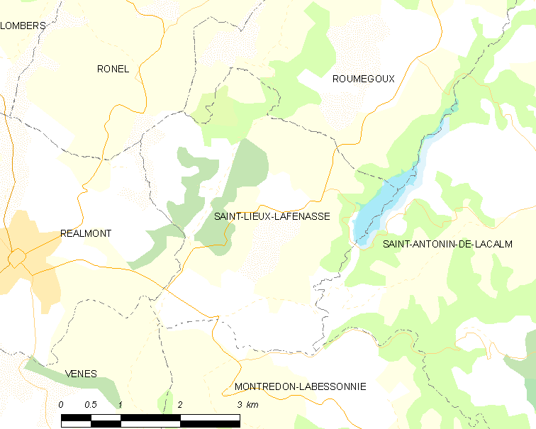 Map of French municipality Saint-Lieux-Lafenasse